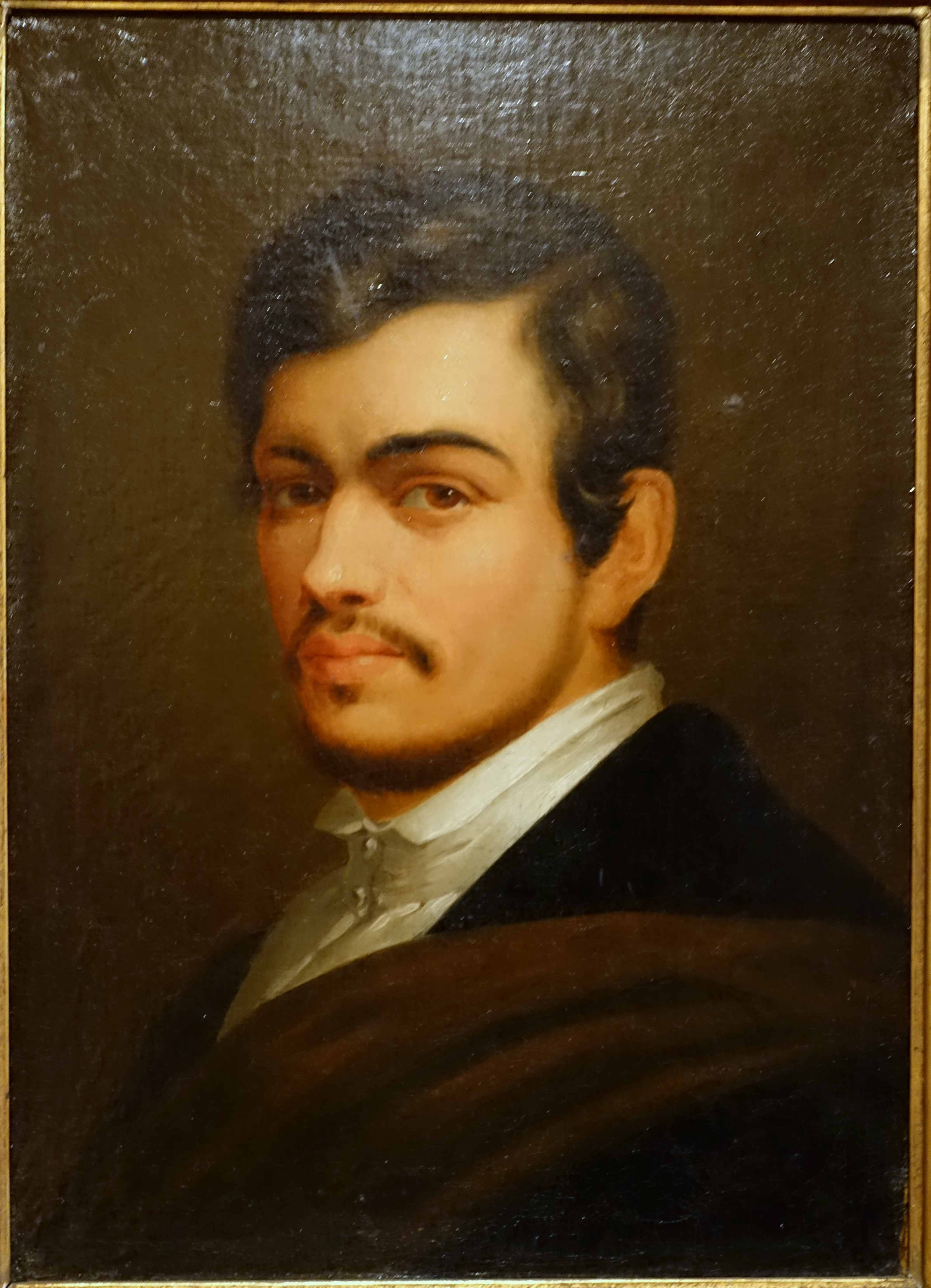 Exhibit in the Museu Nacional de Soares dos Reis - Porto, Portugal.